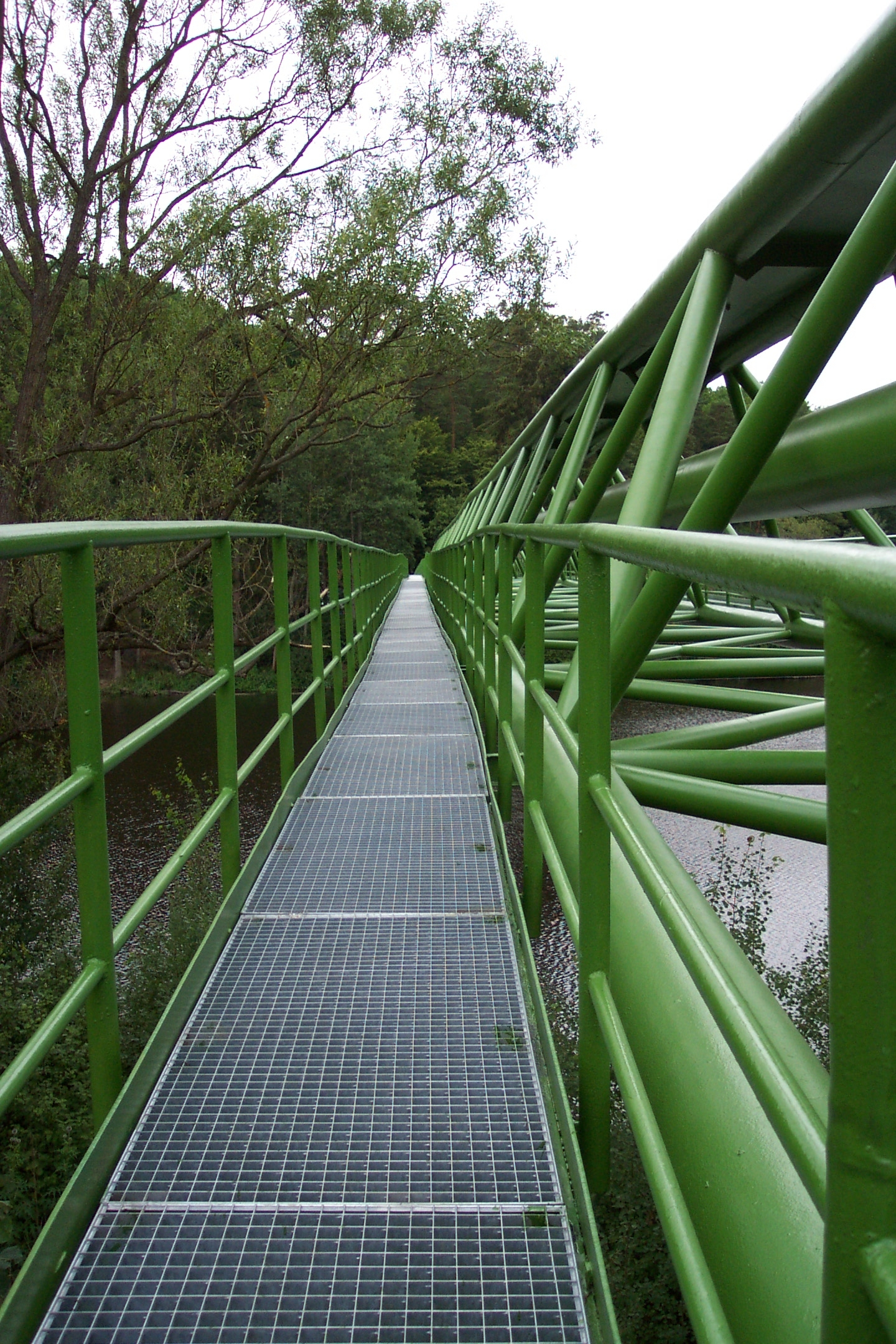 Gas footbridge over the Otava river near Vrcovice village, Písek disctrict, CZ